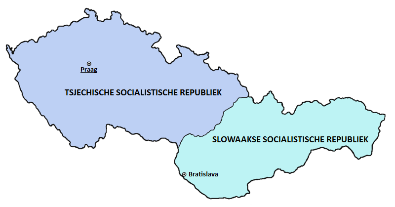 Dutch version of Image:Czechoslovakia.png (PD)